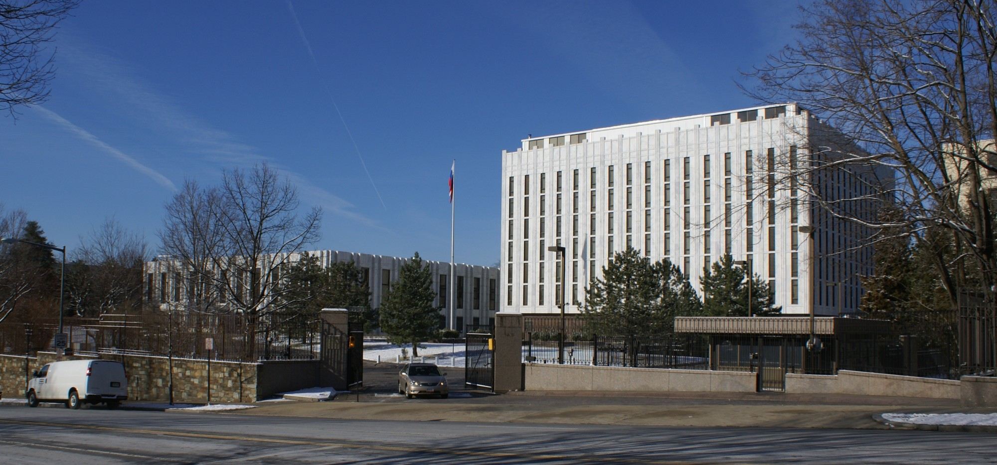 Embassy of Russia in Washington DC. Russia.